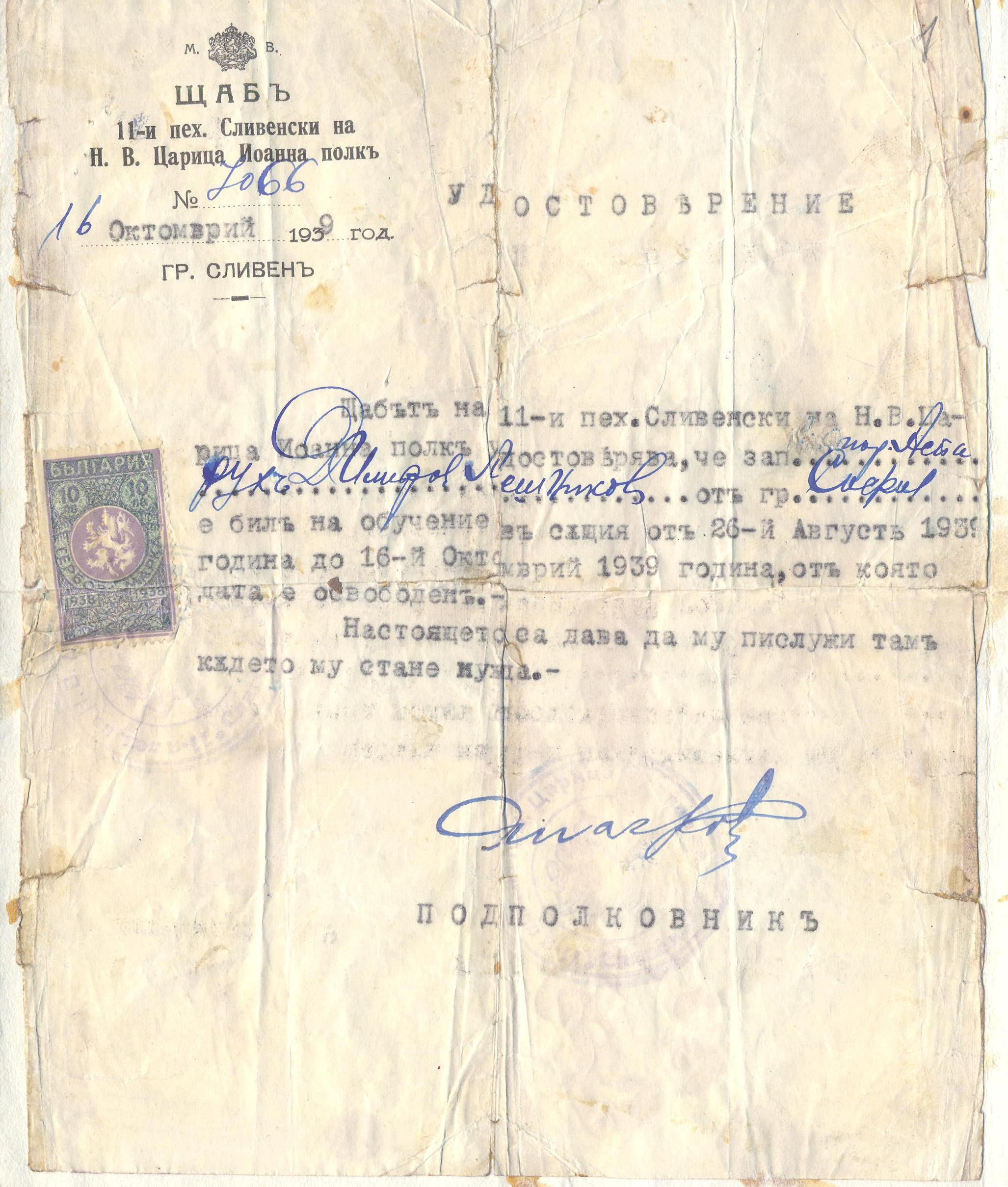 Asparuh (Ari) Leshnikov